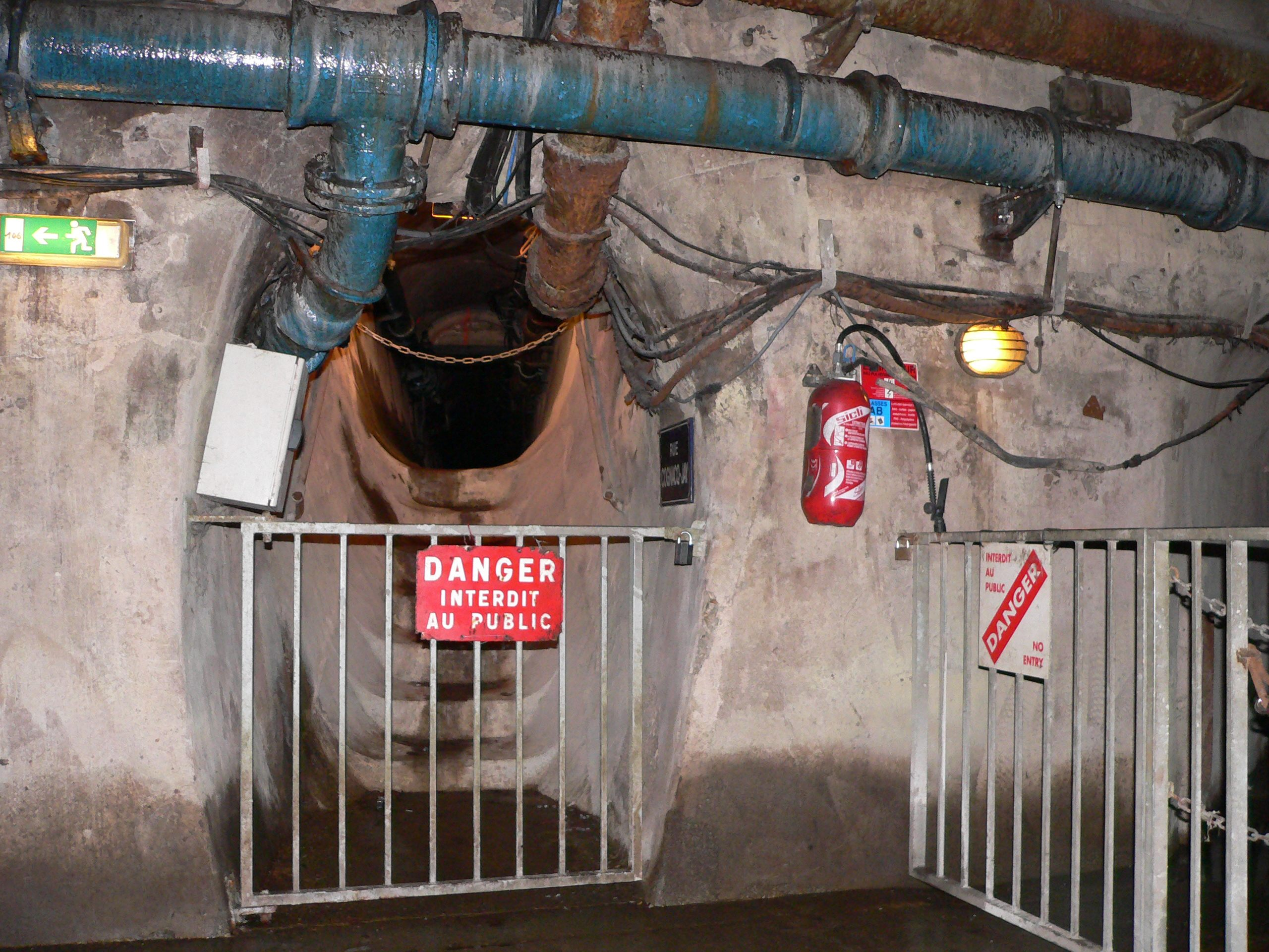 Sewers of Paris and their cleaning equipment.